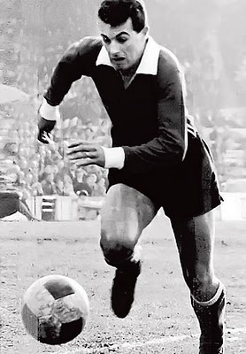 Raúl Bernao while playing for Independiente